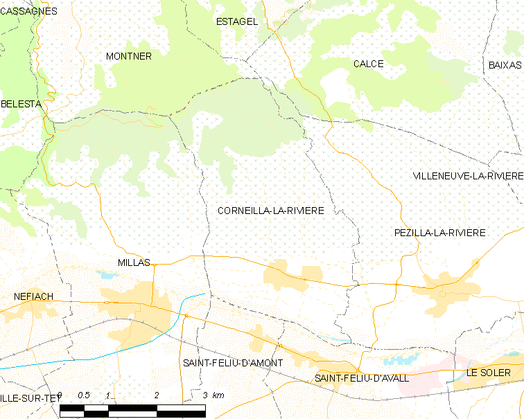 Map of French municipality